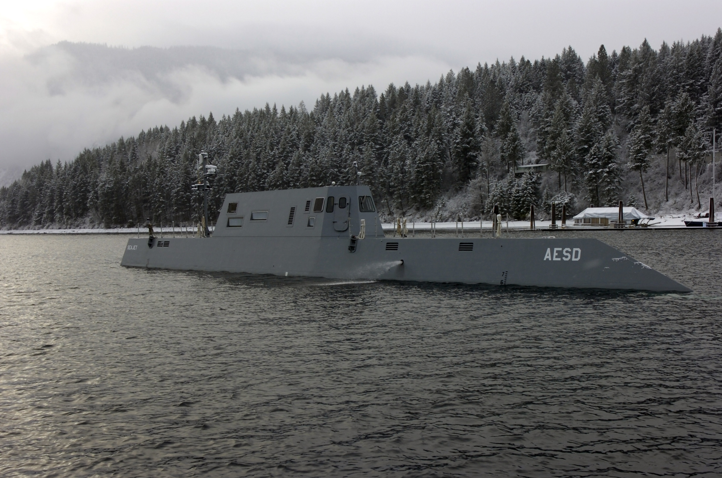 Bayview, Idaho (Nov. 30, 2005) - The Advanced Electric Ship Demonstrator (AESD), Sea Jet, undergoes sea trials on Lake Pend Oreille at the Naval Surface Warfare Center Carderock Division, Acoustic Research Detachment in Bayview, Idaho. Funded by the Office of Naval Research (ONR), Sea Jet is a 133-foot vessel testing an underwater discharge water jet from Rolls-Royce Naval Marine, Inc., called AWJ-21, a propulsion concept with the goals of providing increased propulsive efficiency, reduced acoustic signature, and improved maneuverability over previous Destroyer Class combatants.